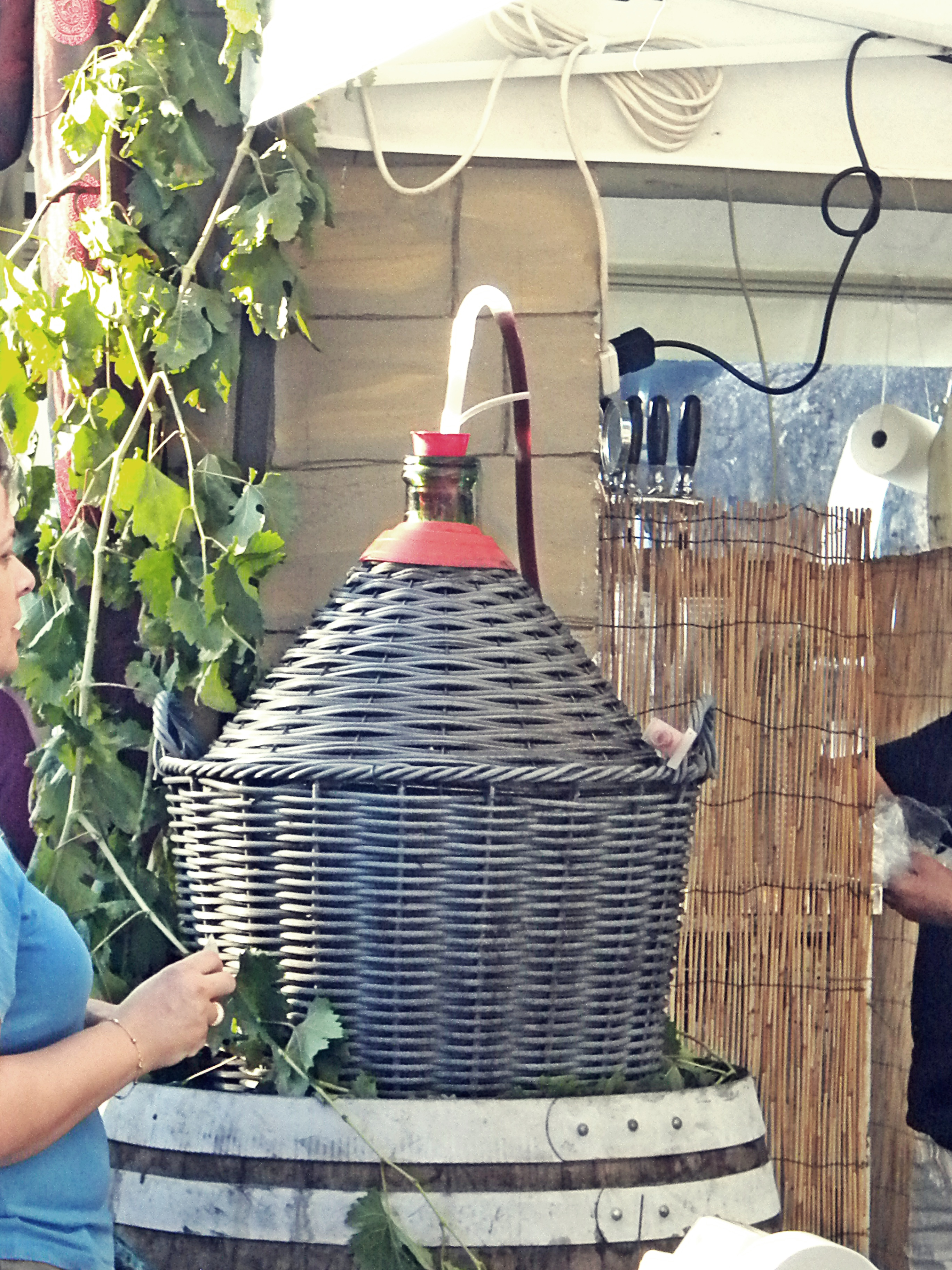 carbow